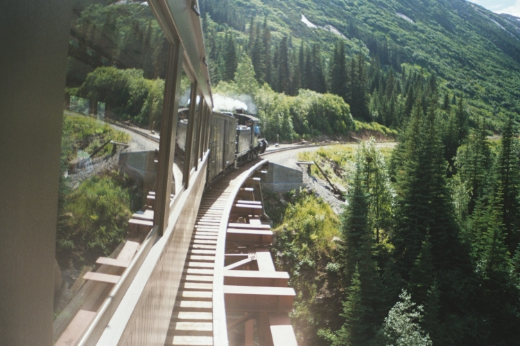 White Pass steam locomotive, on a curve showing scenery. Photo taken July, 2001.